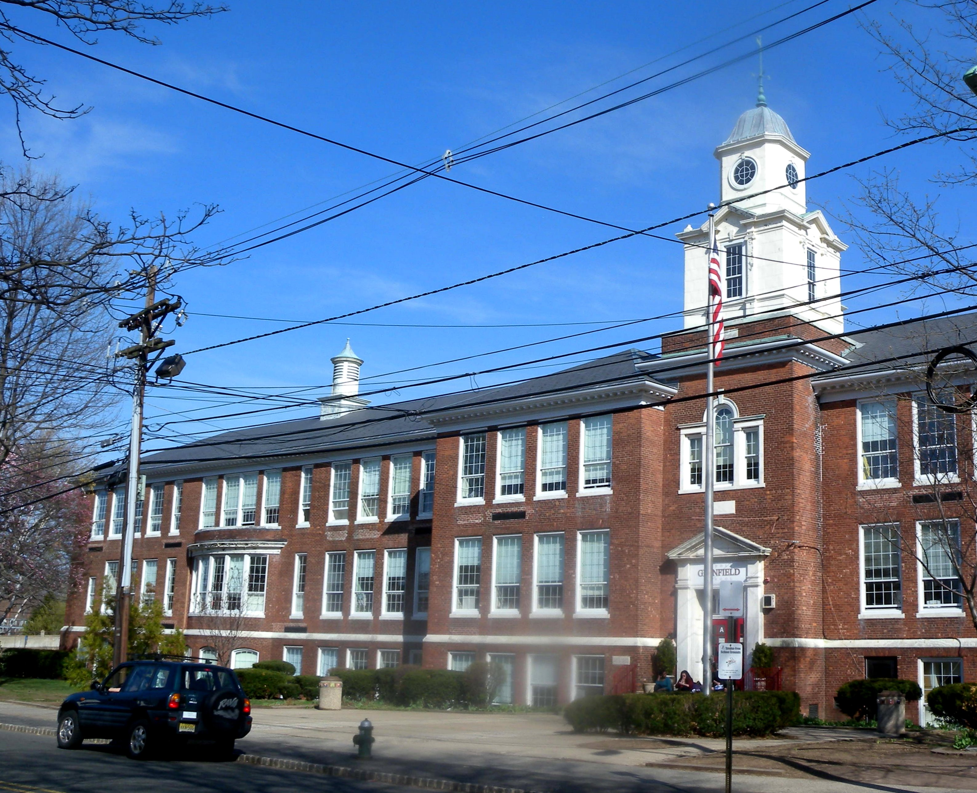 Looking east at Glenfield School on a sunny early afternoon.